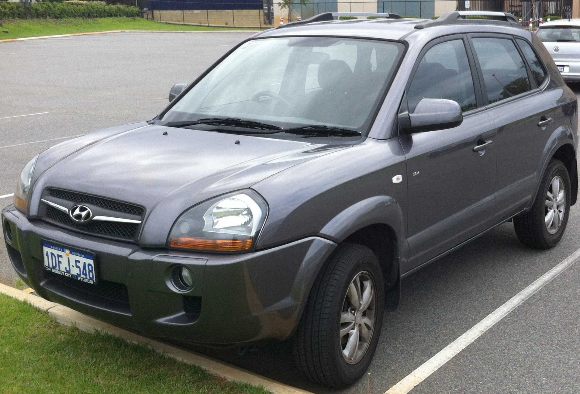 2008-2010 Hyundai Tucson City SX wagon. Photographed in Claremont, Western Australia Australia